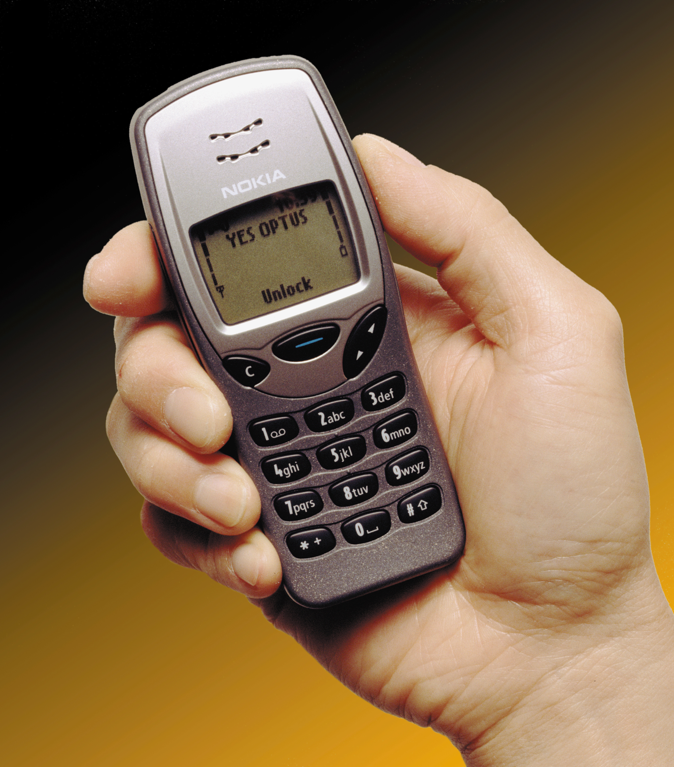 Nokia Mobile phone- linked to the Optus network. Photo credit: Tracey Nicholls